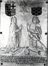 Anne of York (1439-1476) (daughter of Richard Plantagenet, 3rd Duke of York) and and her second husband Sir Thomas St Leger (d.1483). Her first husband was Henry Holland, 3rd Duke of Exeter. Monumental brass on east wall of St Ledger Chantry (now Rutland Chantry), north transept of St George's Chapel, Windsor Castle. Anne was a sister of Kings Edward IV and Richard III. Inscription: Wythin thys Chappell lyethe beryed Anne Duchess of Exetur suster unto the noble kyng Edward the forte. And also the body of syr Thomas Sellynger knyght her husband which hathe funde within thys College a Chauntre with too prestys sy’gyng for ev’more. On whose soule god have mercy. The wych Anne duchess dyed in the yere of oure lorde M Thowsande CCCCl xxv. The arms above Anne show her paternal arms of the Dukes of York: in the dexter half the royal arms of England, emphasising their descent from Lionel of Antwerp, 1st Duke of Clarence (1338–1368), third son of King Edward III (on which basis the House of York claimed the throne), who married Elizabeth de Burgh, 4th Countess of Ulster (1332–1363). Their daughter Philippa de Burgh married Edmund Mortimer, 3rd Earl of March, whose son Roger de Mortimer, 4th Earl of March, was the great-grandfather of King Edward IV; In the sinister half are shown in chief Or a cross gules (de Burgh) and in base: Barry or and azure, on a chief of the first two pallets between two base esquires of the second over all an inescutcheon argent (Mortimer)